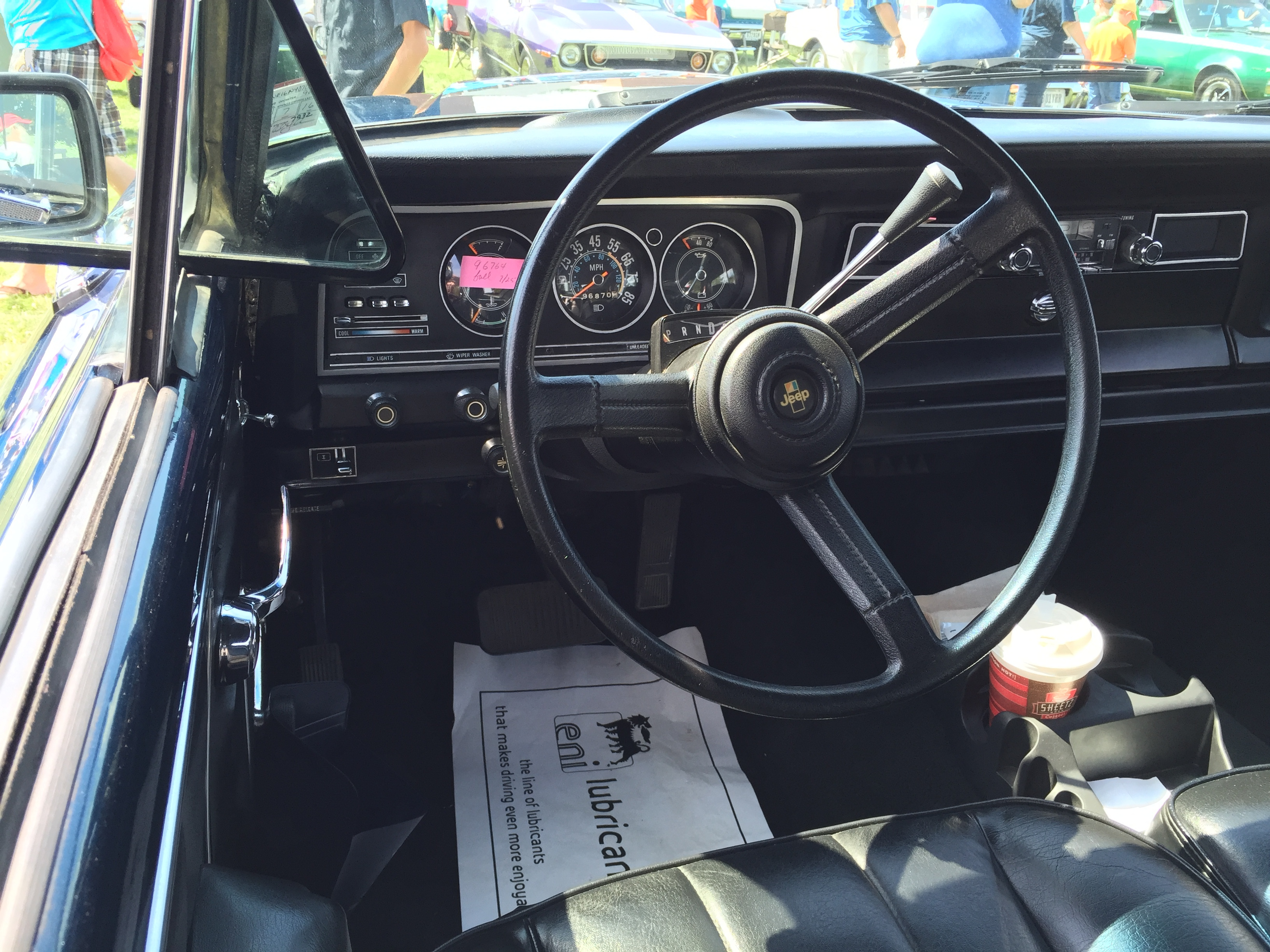 1983 Jeep Cherokee (SJ) two-door SUV (officially described as "wagon" on the manufacturer's original Monroney "window" sticker because the term "Sport Utility Vehicle" was not in use in 1983). This Jeep has AMC's 360 cu in (5.9 L) 2-barrel V8 engine, the automatic transmission and a steering column mounted shifter, as well as the standard "part-time" four-wheel-drive system. Finished in "Deep Night Blue" it has an accessory front brush guard. The interior is in black with the optional center cushion and armrest between the standard bucket seats. The original AM radio in this Jeep has been upgraded to AMC's AM/AF/cassette tape deck. Picture taken during the car show at the American Motors Owners Association (AMO) annual convention that was held July 2015 near Cleveland, Ohio.